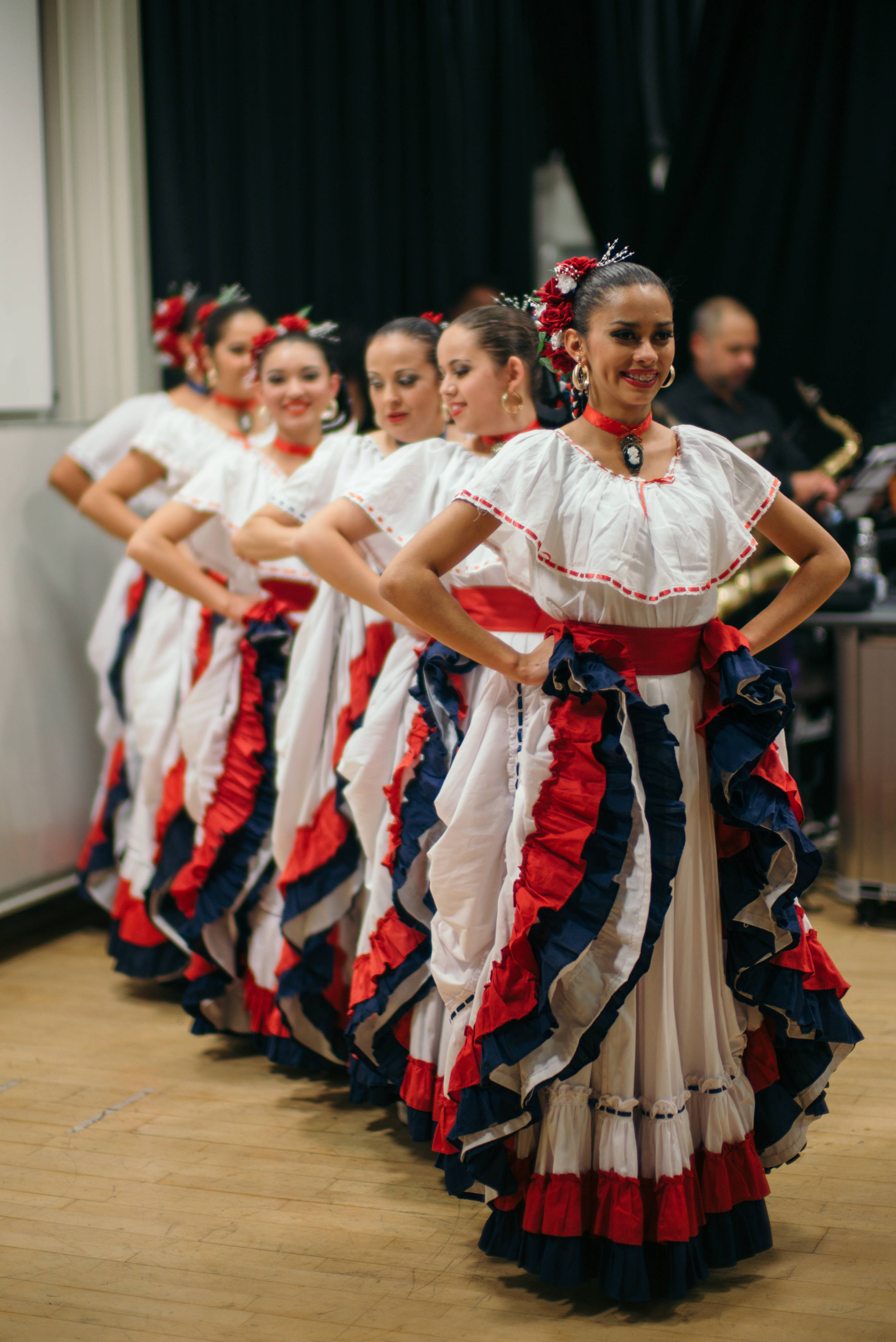 From performance of Folk Group Mi LInda Costa Rica, November 2016